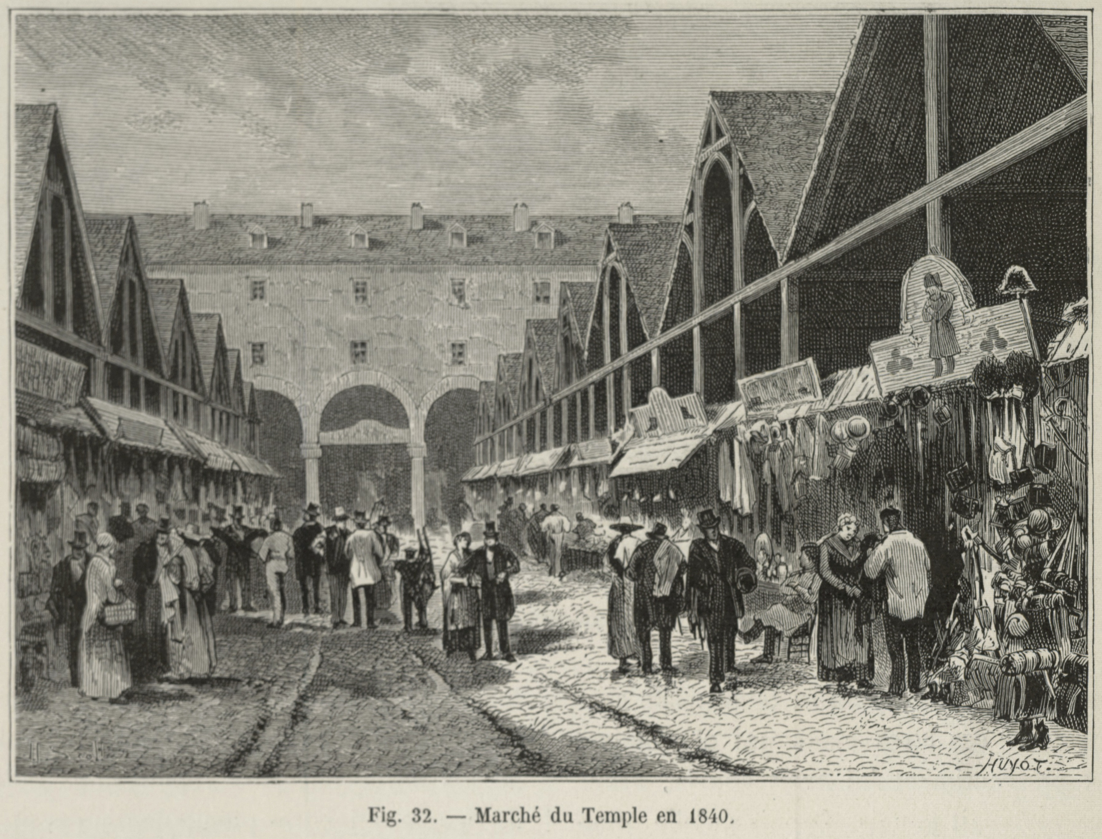 The second-hand clothing market known as the Marché du Temple was located in the rotonde du Temple. Though it had been transferred from the Marché des Innocents in 1802, it did not officially open until 1811.